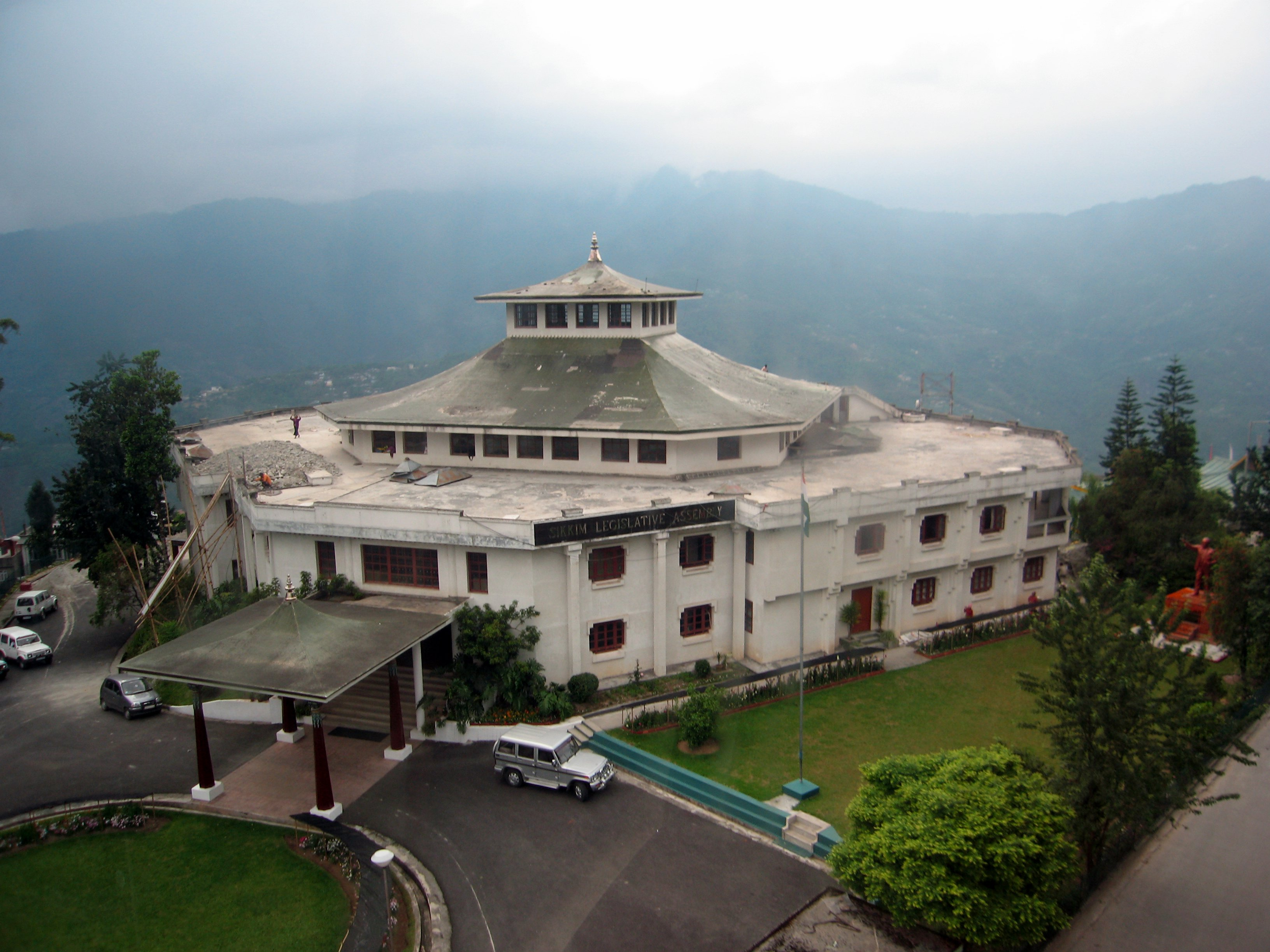 Sikkim Legislative assembly in Gangtok. You can see the title at the top of the building. Gangtok is usually in fog most of the year.Sikkim Legislative assembly in Gangtok